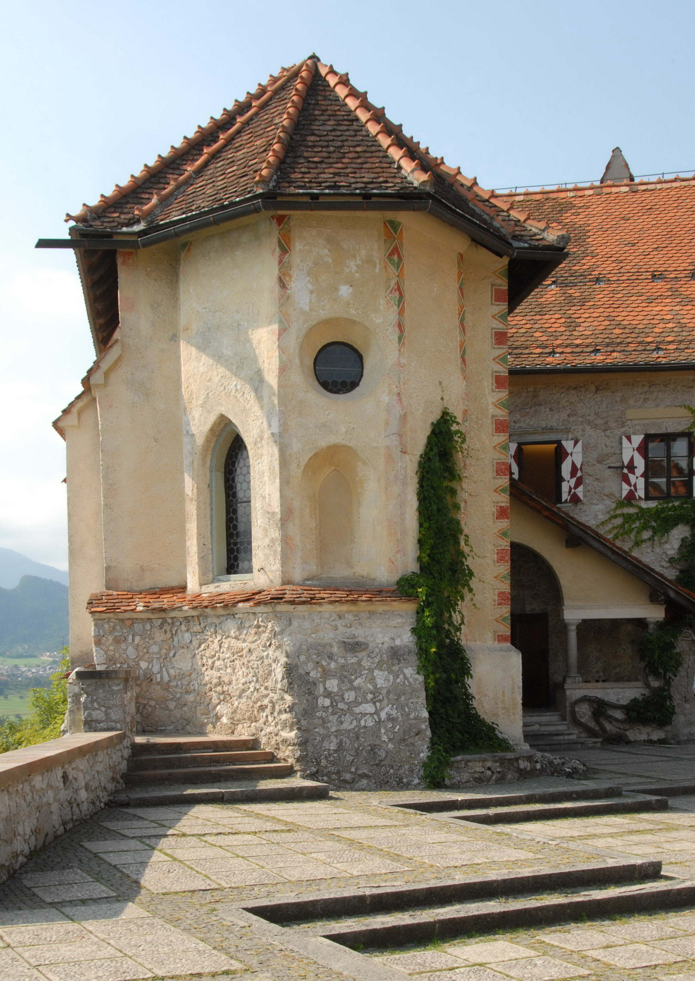 Chapel in the upper inner ward of the Bled castle, Bled, Slovenia